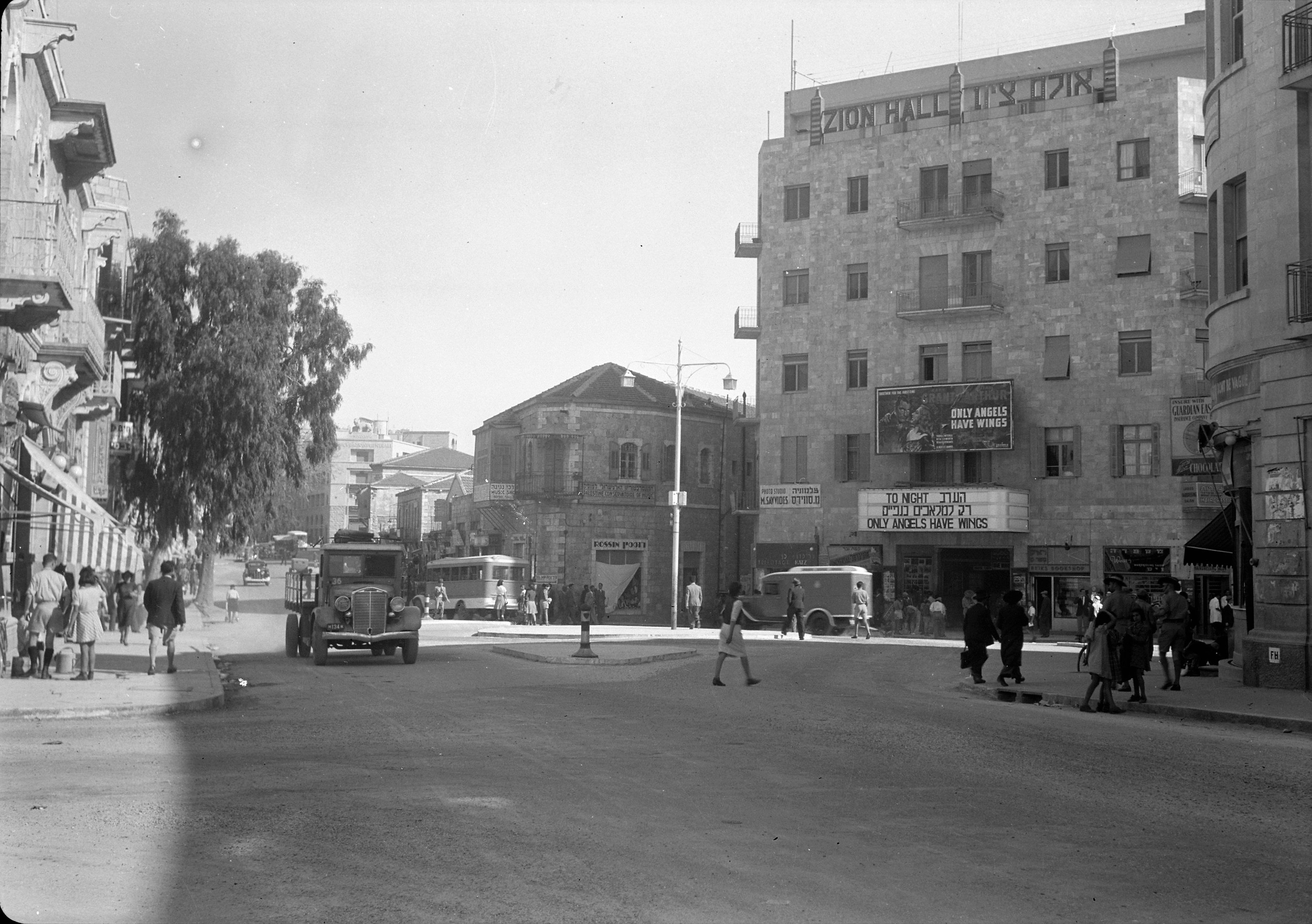 Newer Jer. [i.e., Jerusalem] streets [Zion Circle]